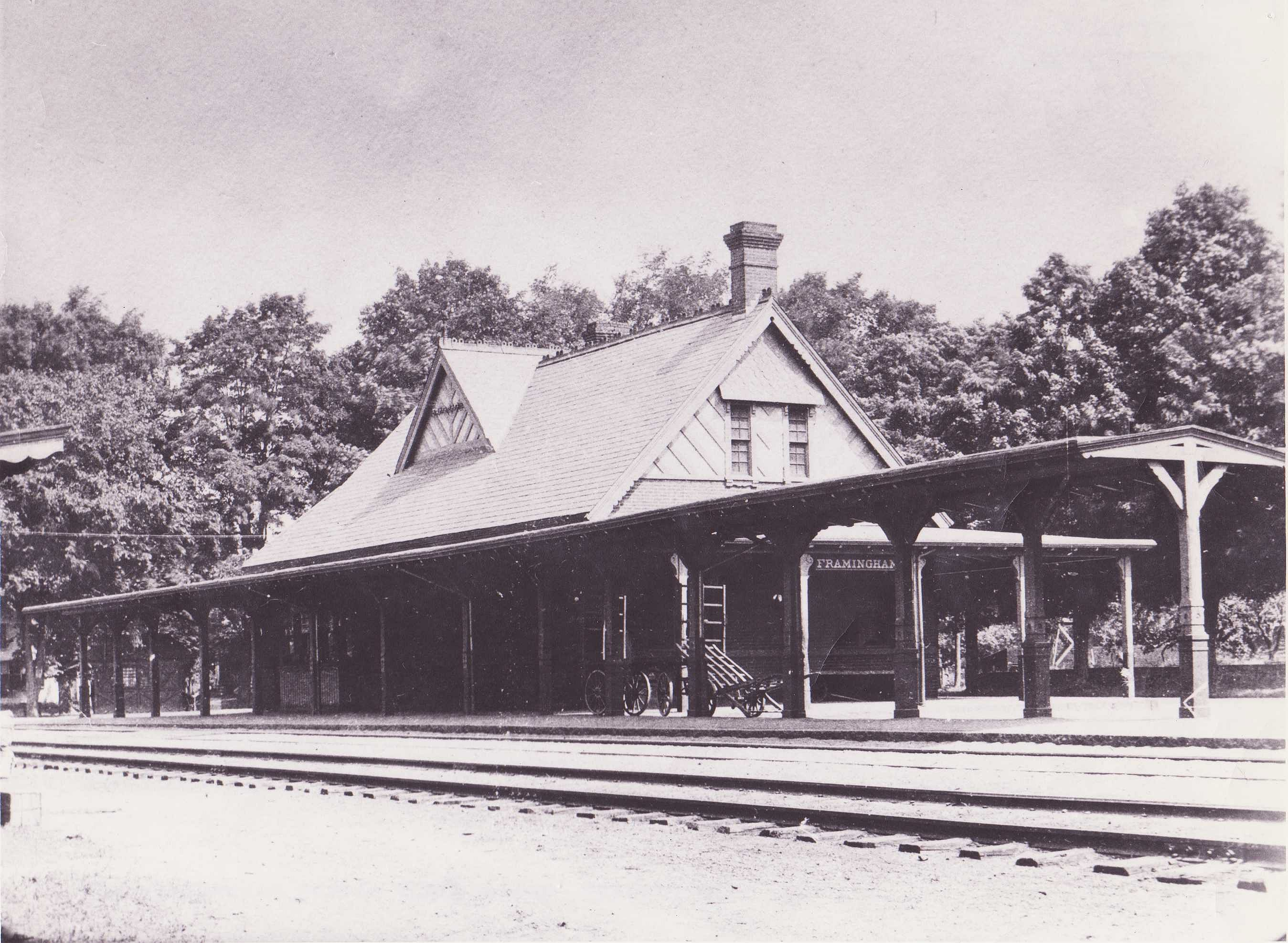 Framingham Centre station on the Agricultural Branch Railroad, in a photograph dating to around 1900